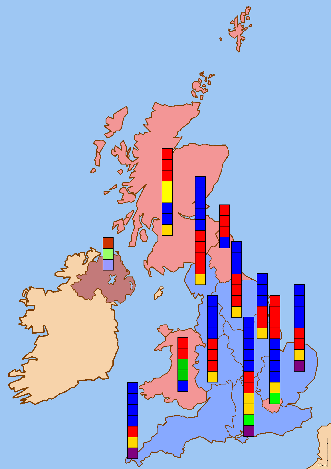 A map of the 1999 UK European Parliament results, based off of Image:European Parliament election 2004 - UK results.png by Anameofmyveryown. The only changes from the former and this map are the addition of squares to regions that lost MEPs between 1999 and 2004 (for example Wales had five MEPs in 1999 but one less in 2004). The squares are ordered by what place each party finished in 1999 (for example Labour finished first in Wales in 1999, followed by Plaid Cymru and the Tories). Colours have been changed for the the Northern Ireland paries, the SNP (Scotland), Plaid Cymru (Wales), and the Lib Dems.